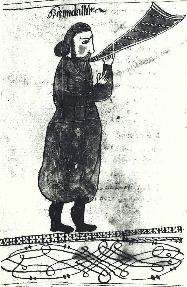 An illustration of the Norse god Heimdallr, from an Icelandic 17th century manuscript. A scan of a black and white photography.